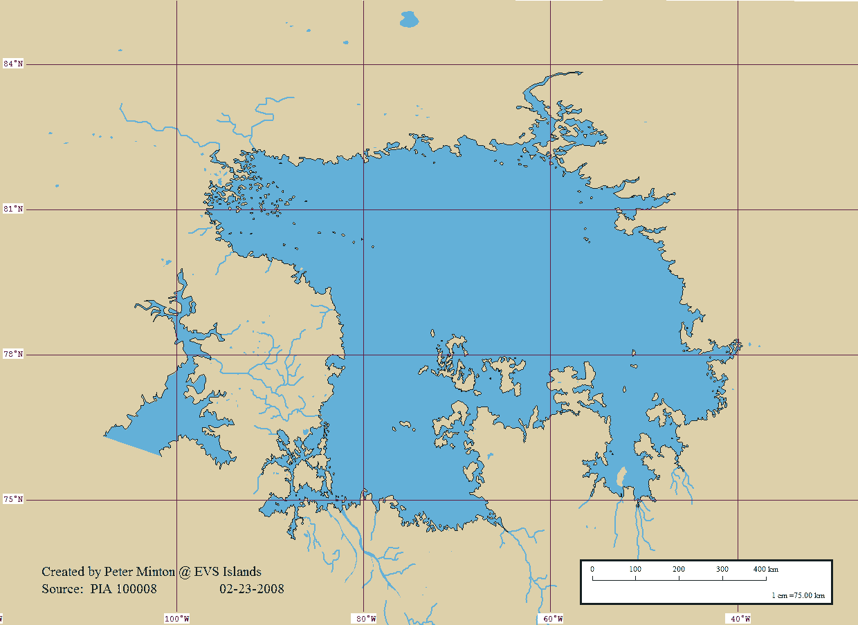 A map showing Ligeia Mare on Titan. Converted to PNG by uploader. The longitudes are 180° off, see [1].